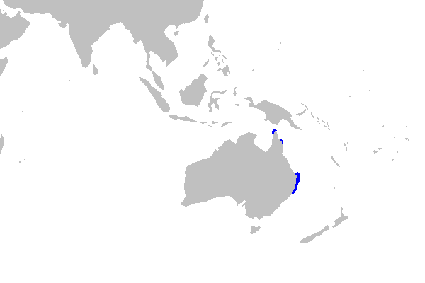 Distribution map for Heteroscyllium colcloughi